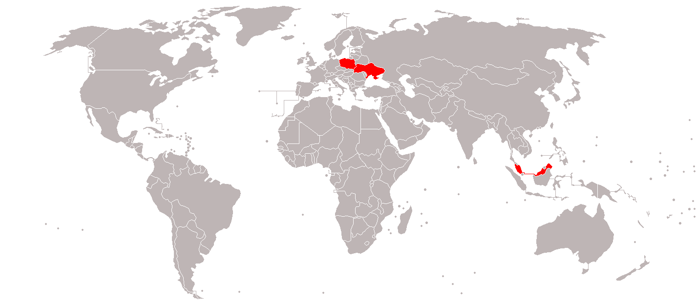 Operators of tank PT-91 colored in red.